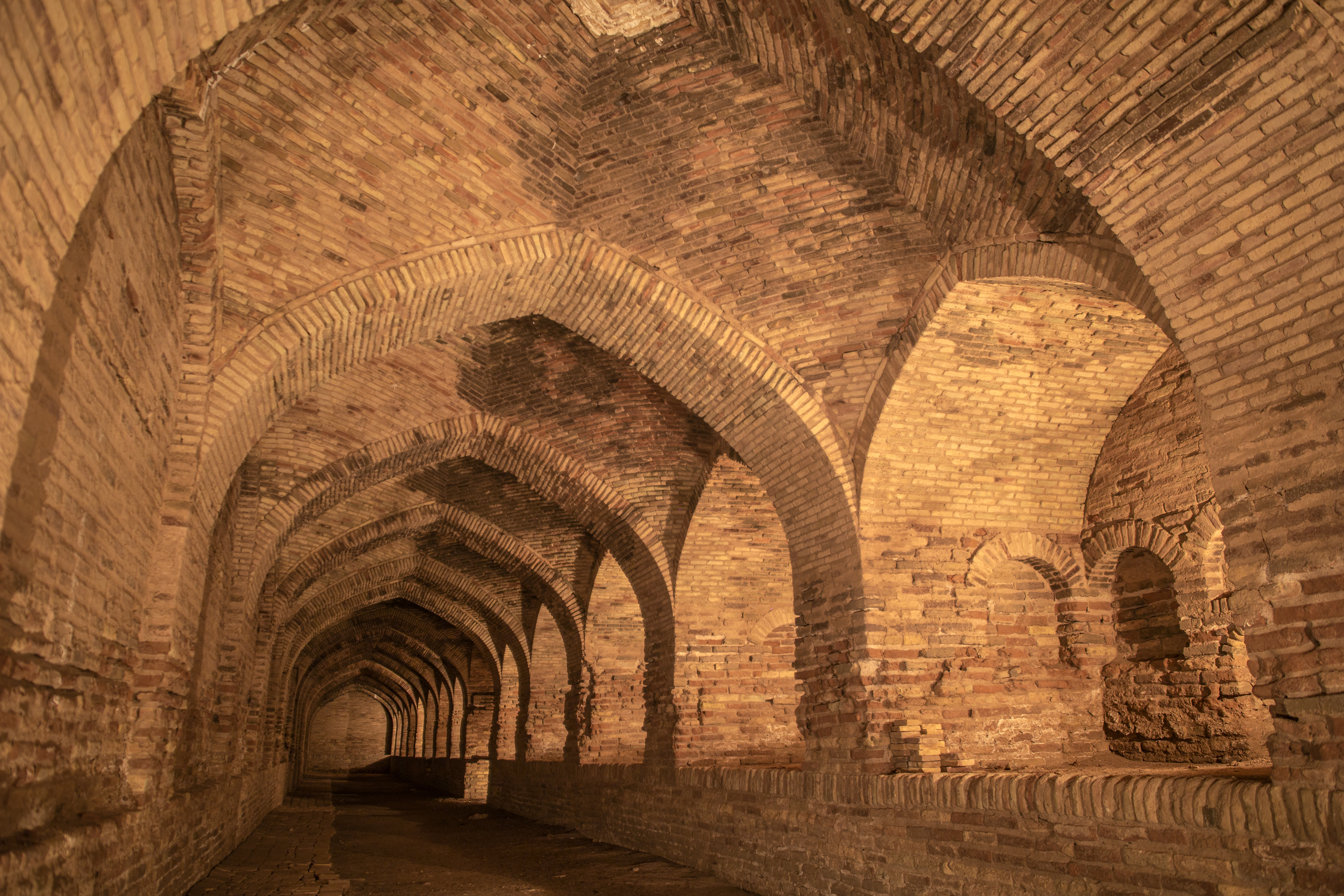 Deir-e Gachin Caravansarai is one of the greatest caravansarais of Iran which is located in the center of Kavir National Park. Its unique qualities is the reason it is called “Mother of Iranian Caravansarais”. It is located in the Central District of Qom County, 80 kilometers north-east of Qom (60 kilometers into Garmsar Freeway) and 35 kilometers south-west of Varamin. (Photo by: Mostafa Meraji, wiki loves monuments 2018)